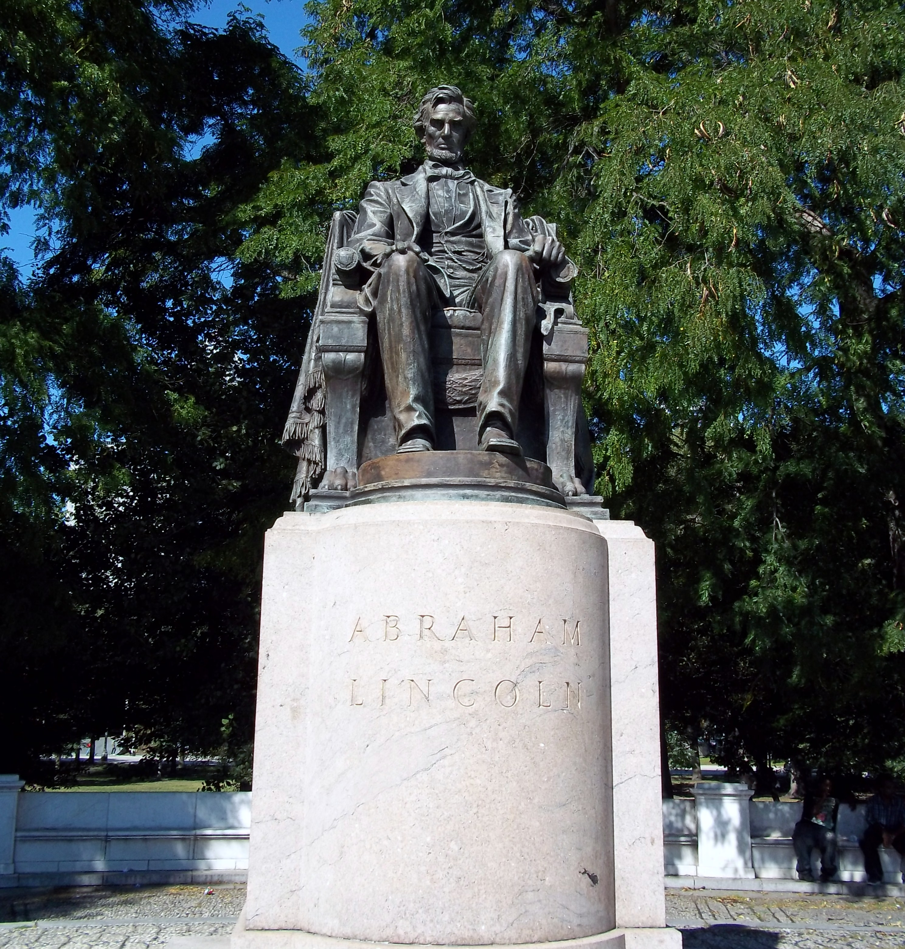 "Sitting Lincoln" monument in Grant Park Chicago. Abraham Lincoln 16th President of the United States. Statue by Saint-Guadens commissioned 1896, cast and displayed 1908.